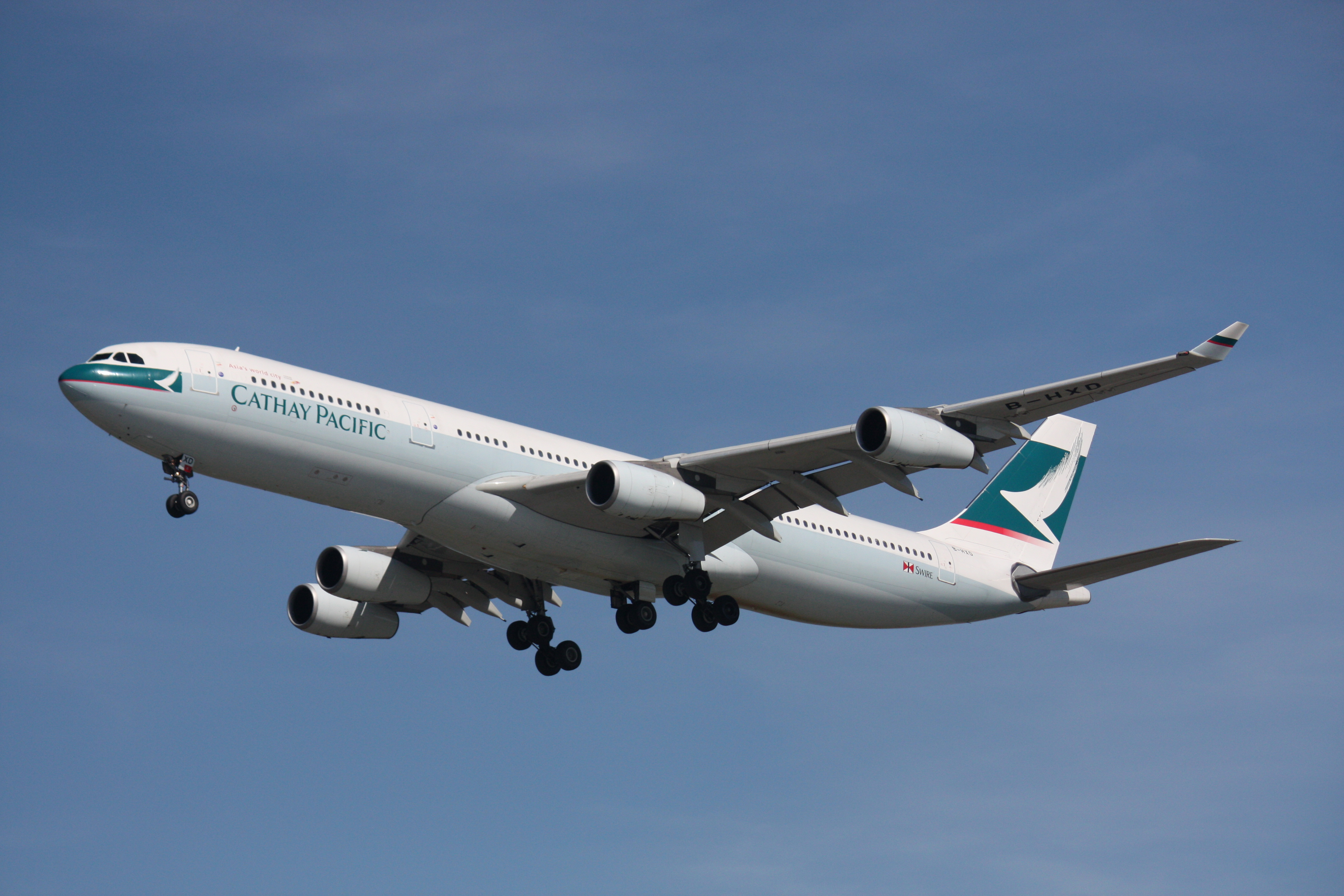 A Cathay Pacific Airbus A340-313X landing at Vancouver International Airport